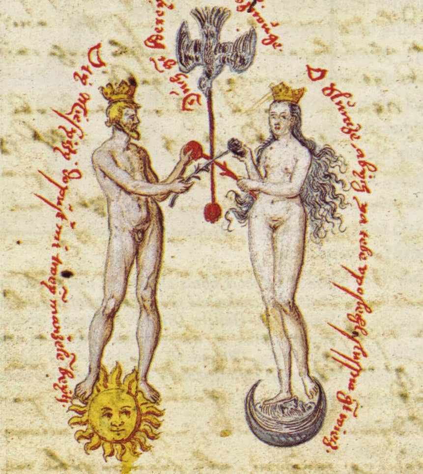 Chemical marriage between Sun and Moon, by Jaroš Griemiller, translation into Czech of the Rosarium Philosophorum, f. 177r, Prague, 1578